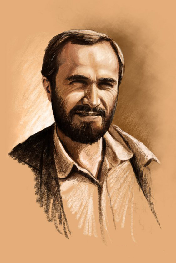 the Portrait of Major General Hossein Kharrazi was the commander of IRGC's during Iran-Iraq War. was killed by shrapnel from a mortar bomb in Operation Karbala-5